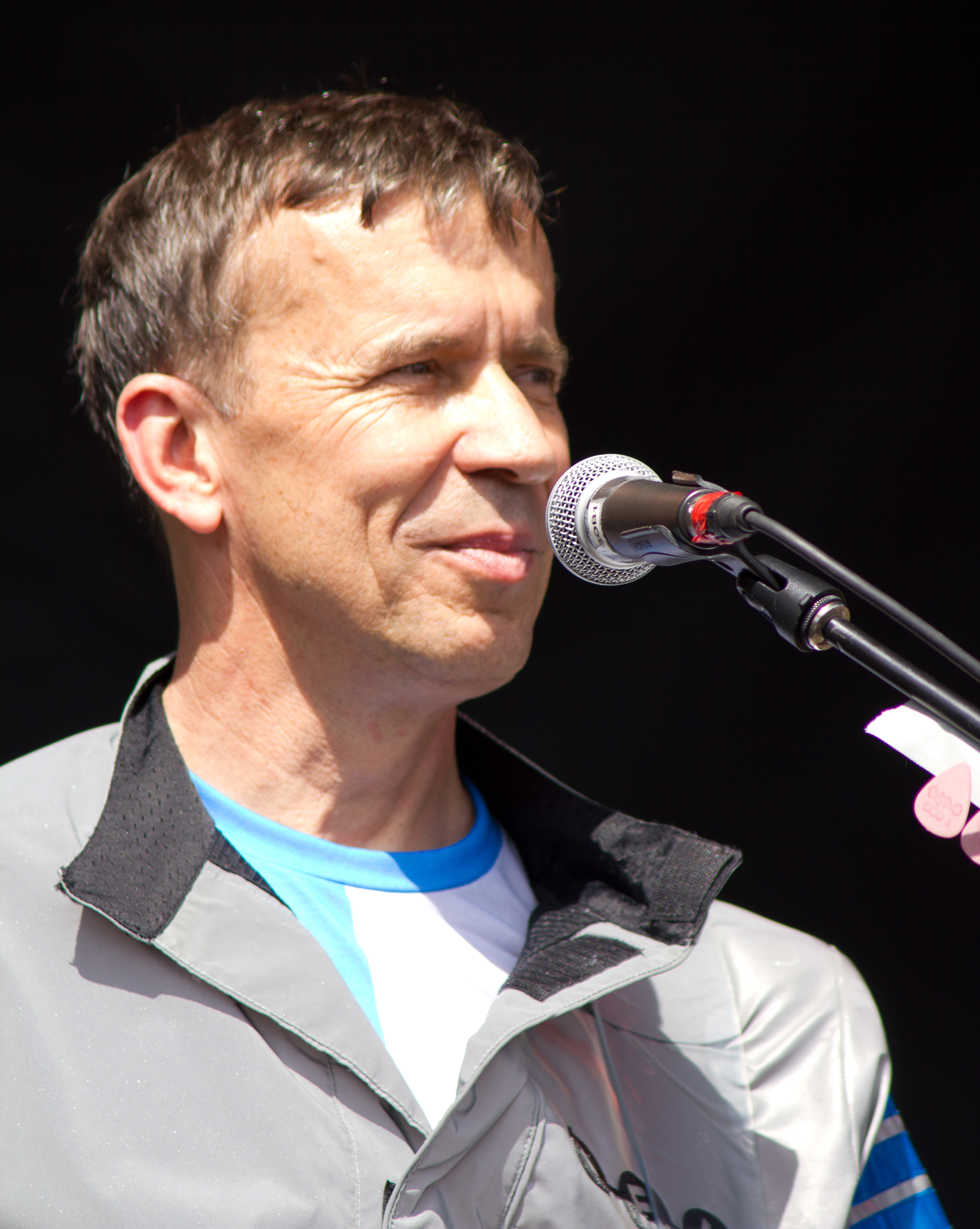 Bob Mothersbaugh at the Burlington's Sound of Music Festival